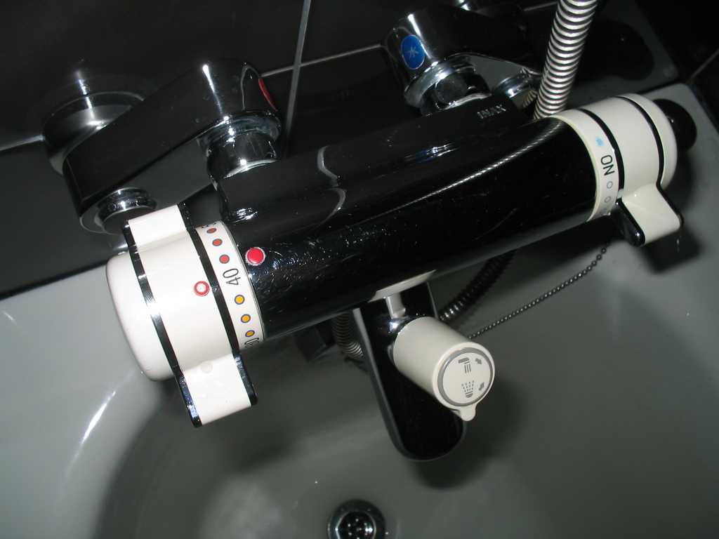 Thermostatic water tap over a bath.